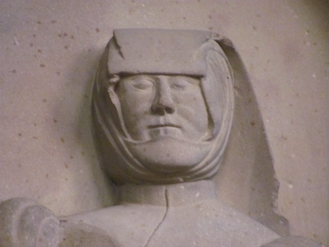 Johanna of Hanau-Lichtenberg on the tomb monument of Wilhelm IV of Eberstein and Johanna of Hanau-Lichtenberg in the church of St. Jacob in Gernsbach